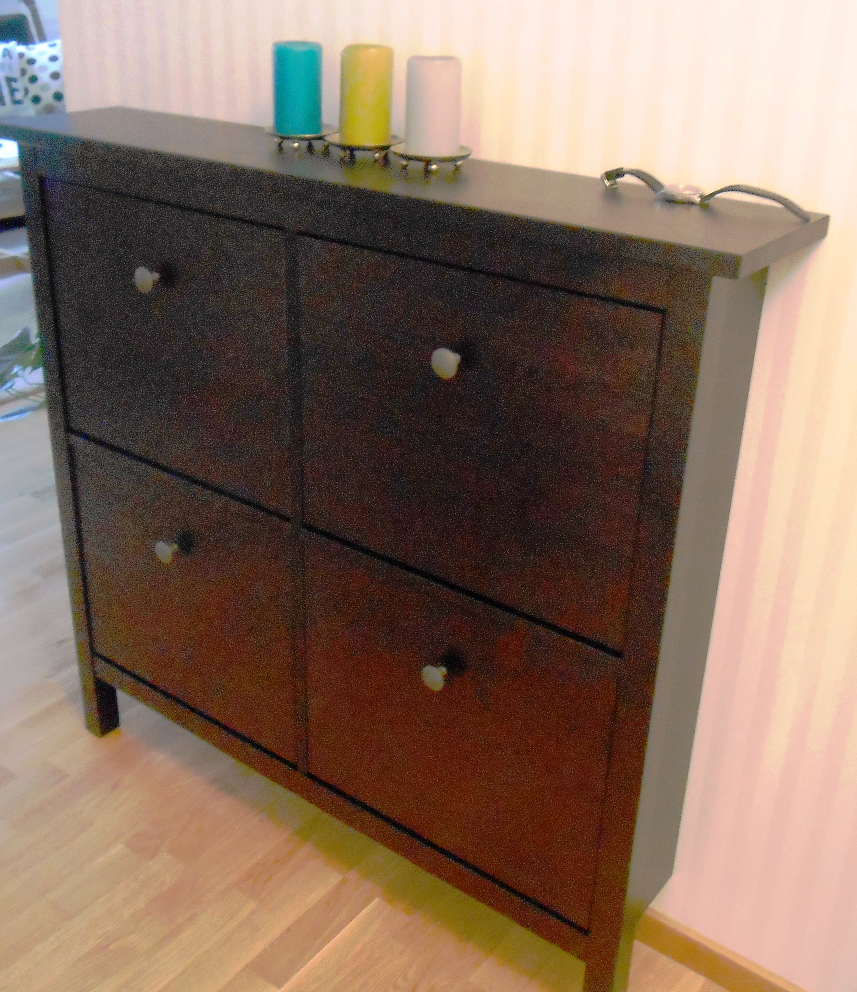 Shoe store